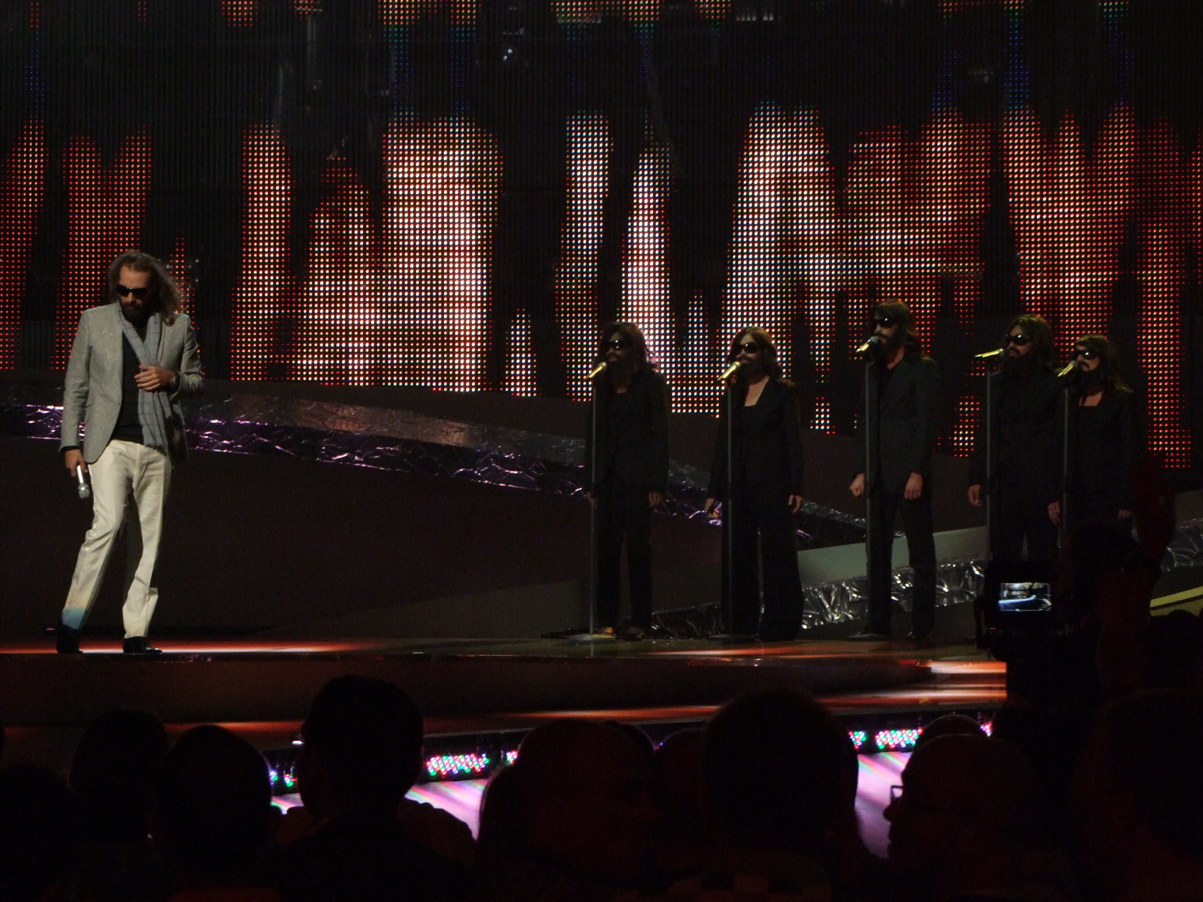 Sébastien Tellier (France) performing Divine at final, Eurovision Song Contest 2008 in Belgrade, Serbia, May 24, 2008